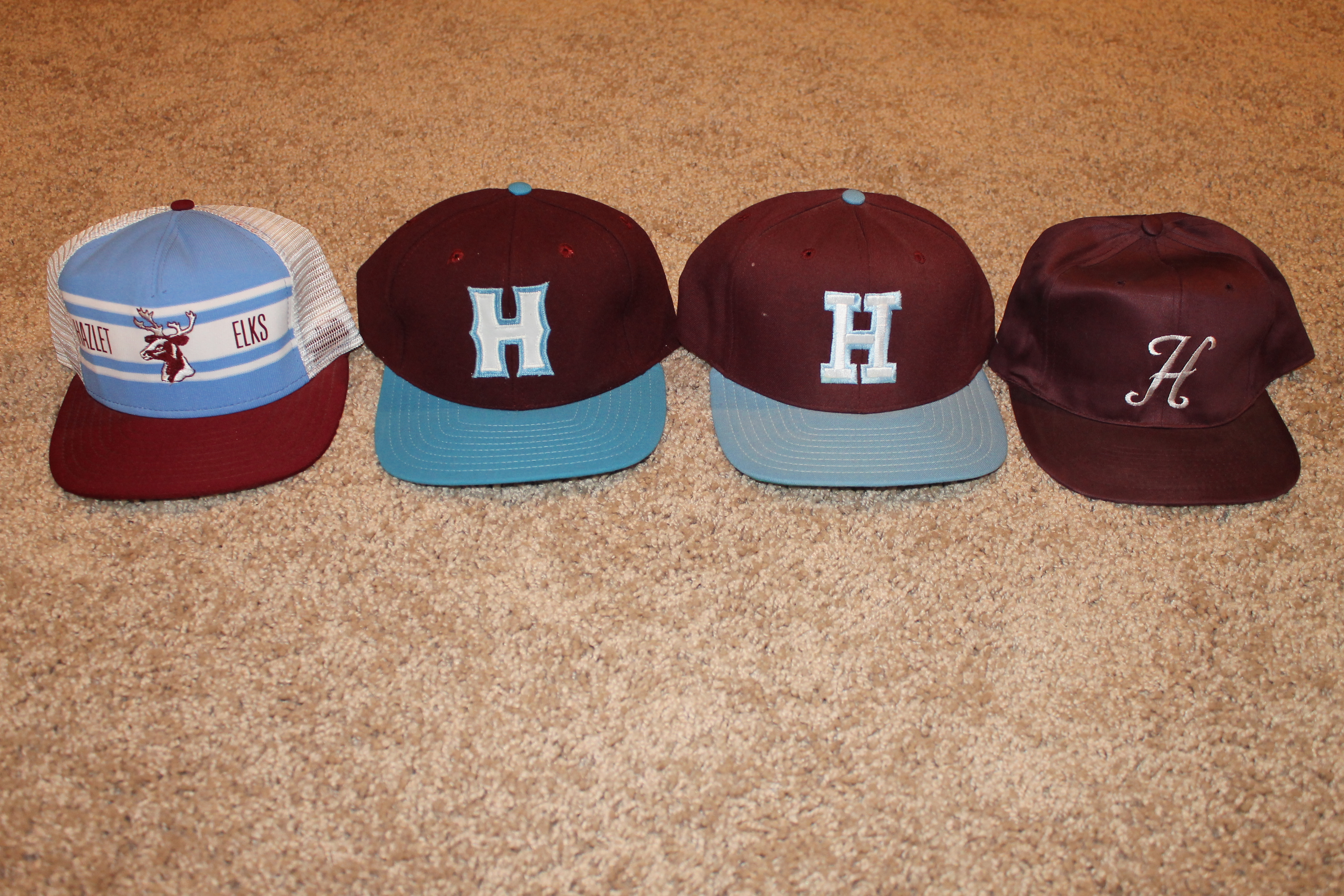 Hazlet Elks Baseball Caps